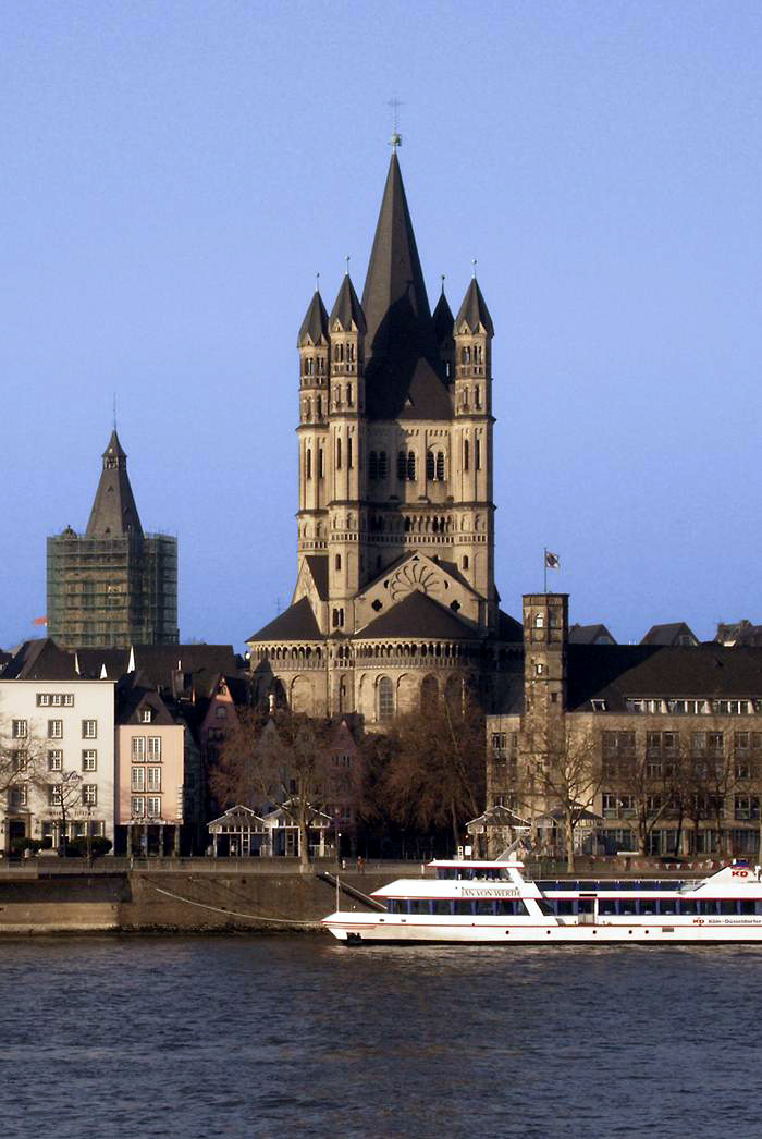 Church Groß St. Martin, Cologne, Germany.